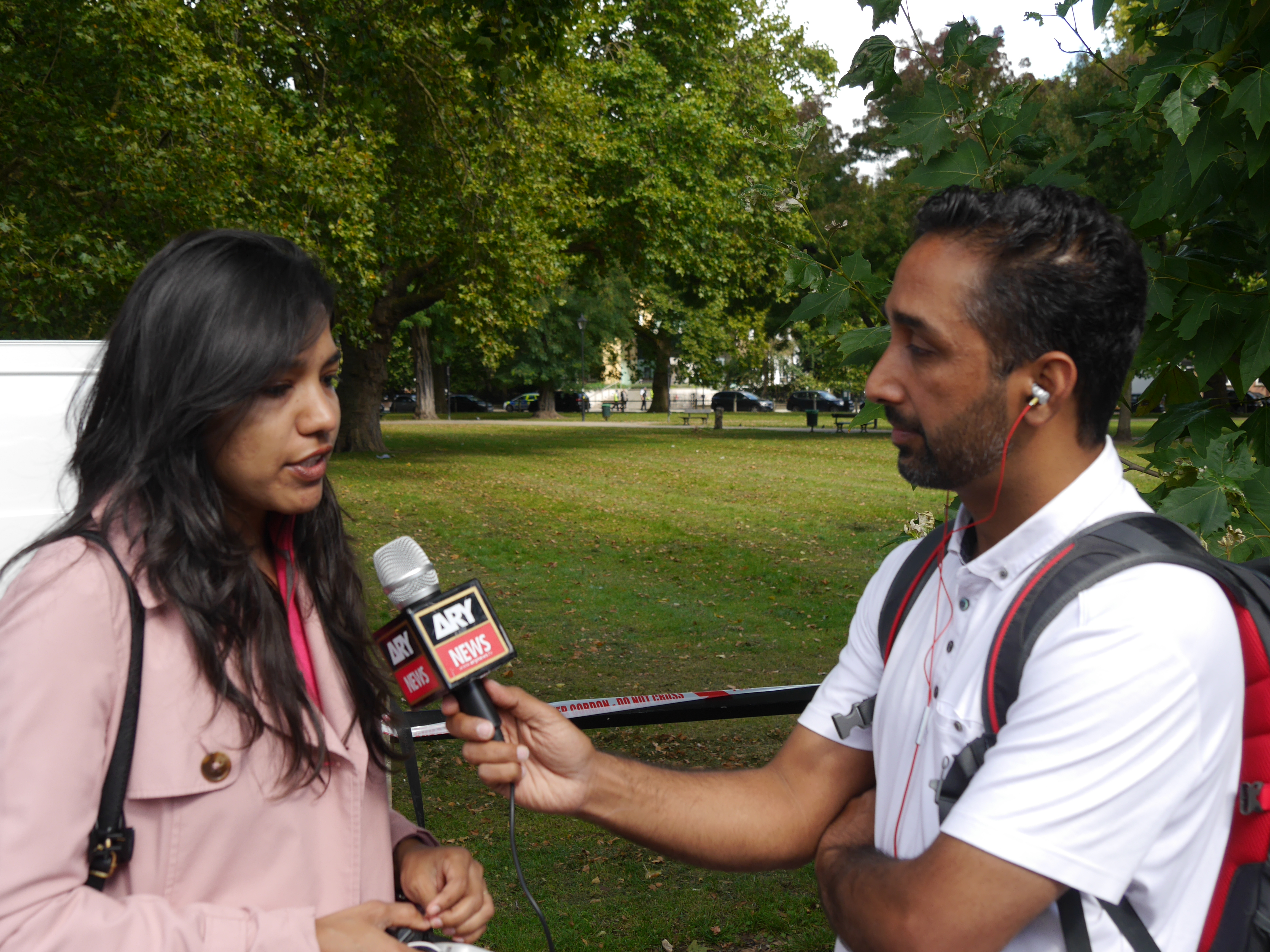 2017 Parsons Green bombing